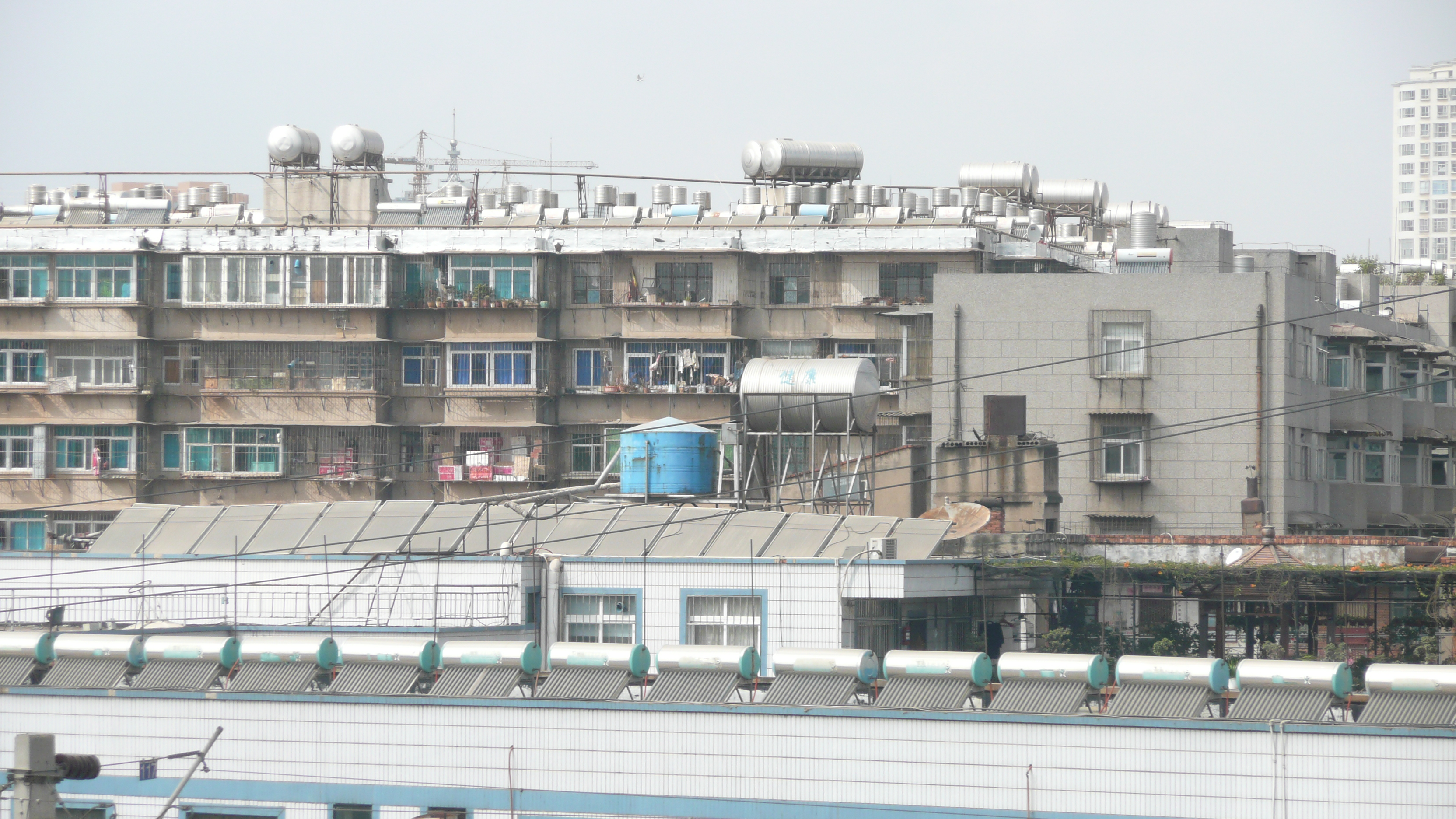 Kunming - Capital of the Chinese province Yunnan